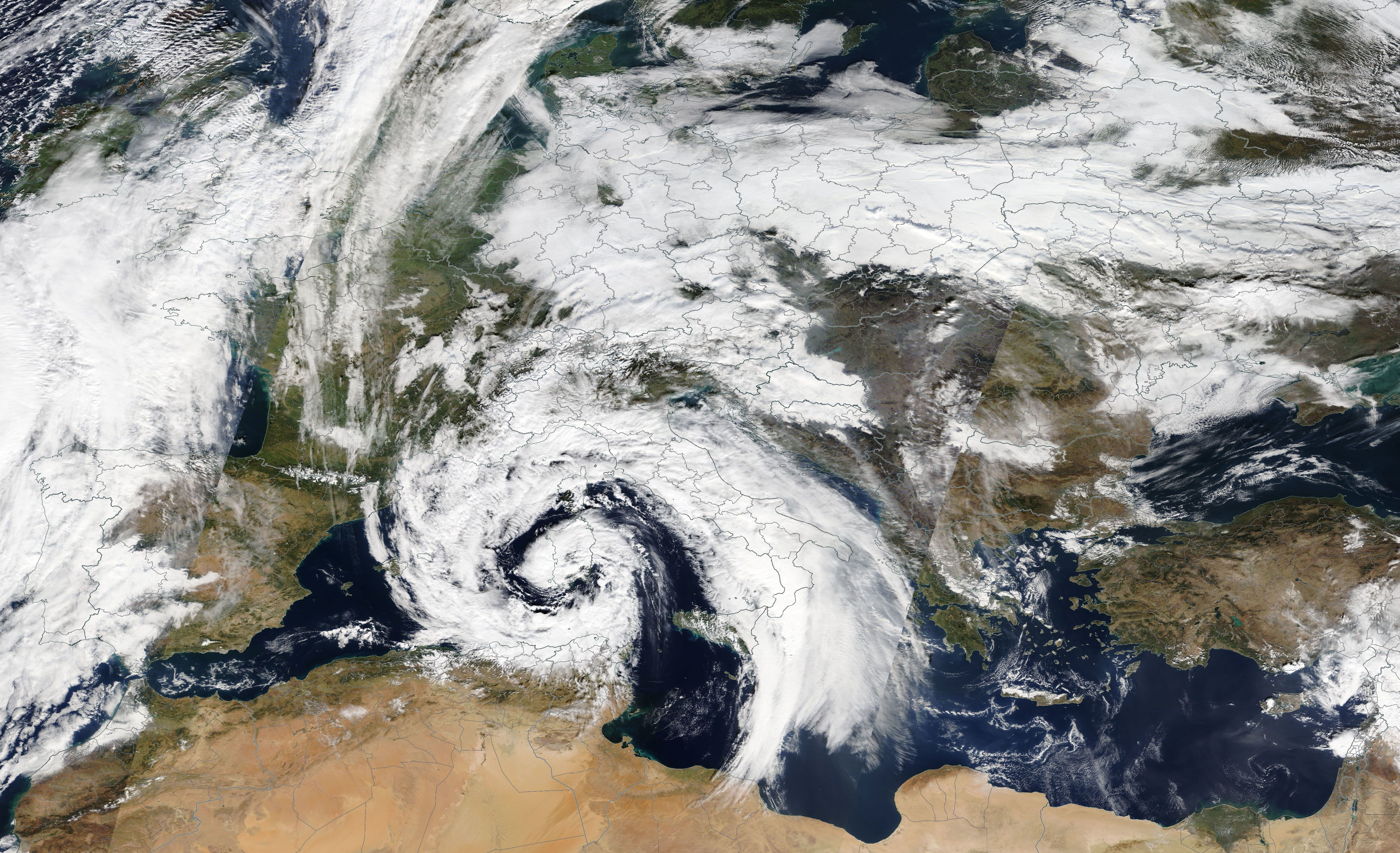 Genoa low (called Xena in Germany) on 4 November 2018.